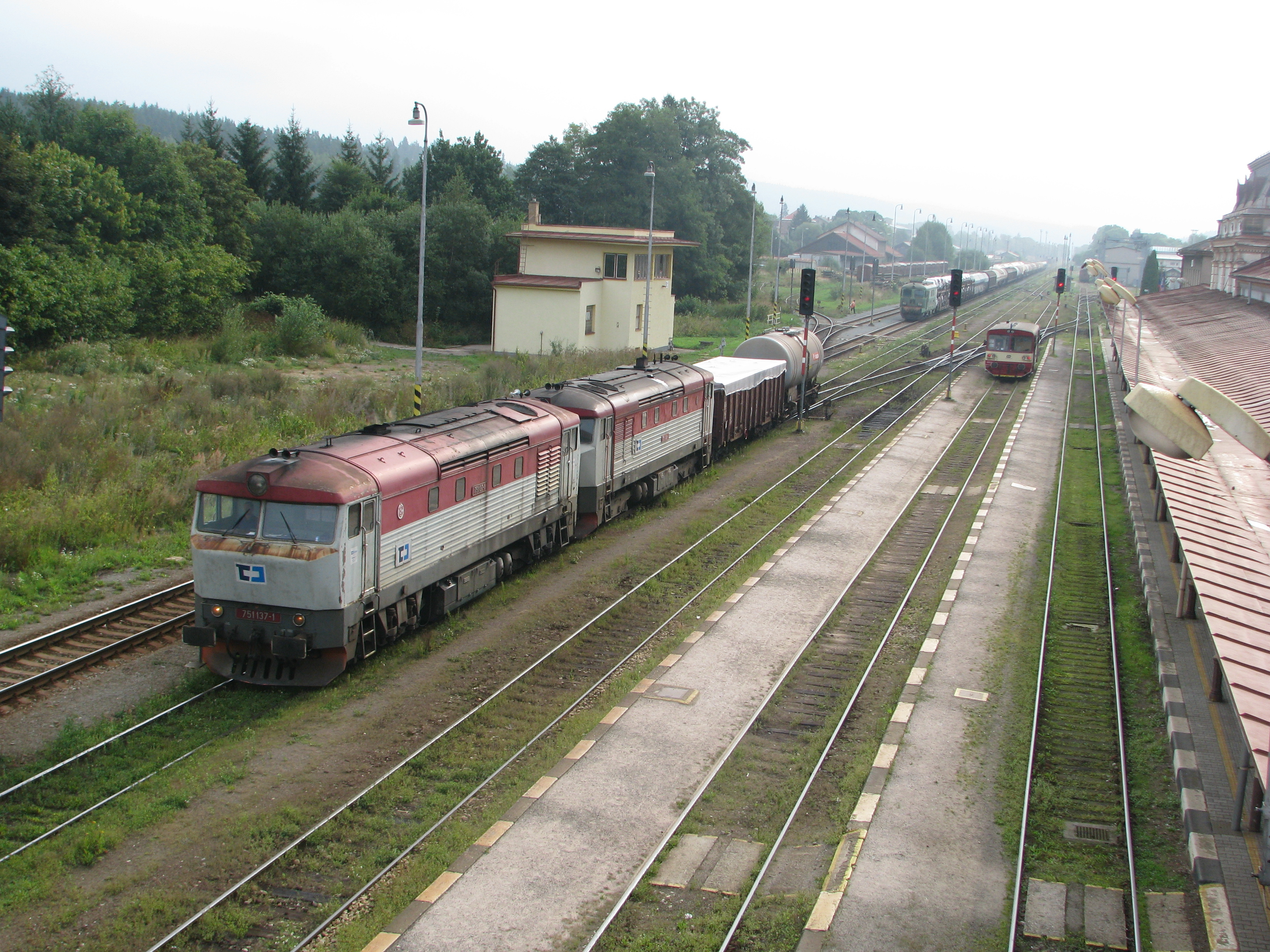 A ČD Class 751 arrives from Meziměstí station (Czech Republic).